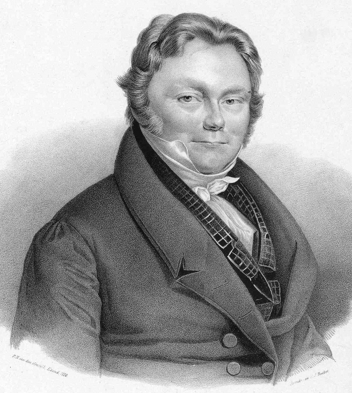 Jöns Jakob Berzelius, lithography portrait from 1836 made by P.H. van den Heuvell, litho by F.J. Backer